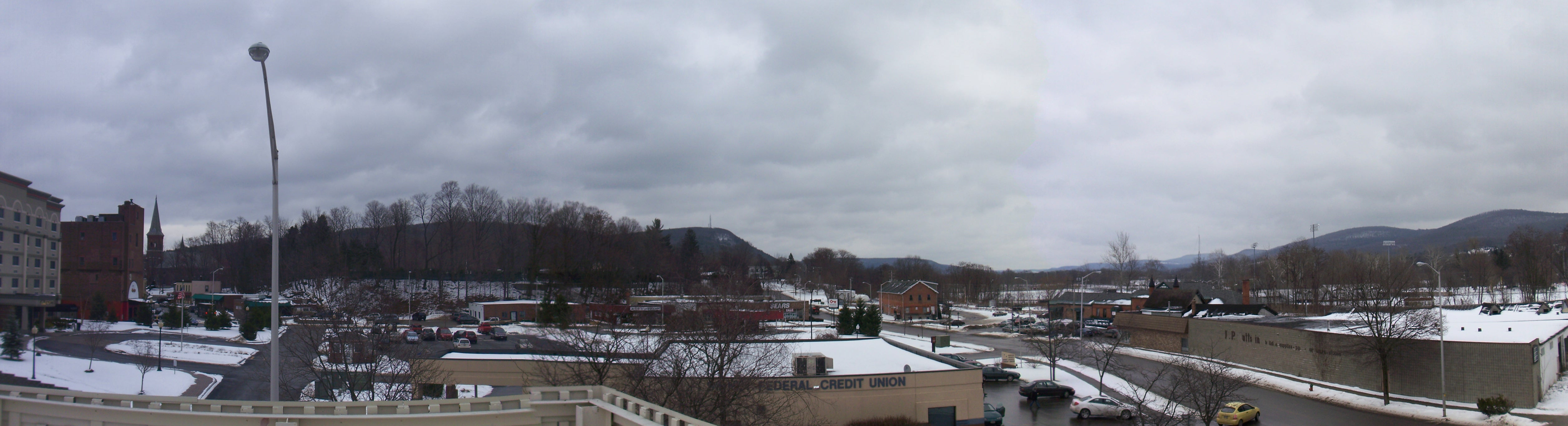 Panoramic view of Market Street, Oneonta, New York, USA on a cloudy winter day. Photo shows lowest level of city near railroad and Susquehanna River.